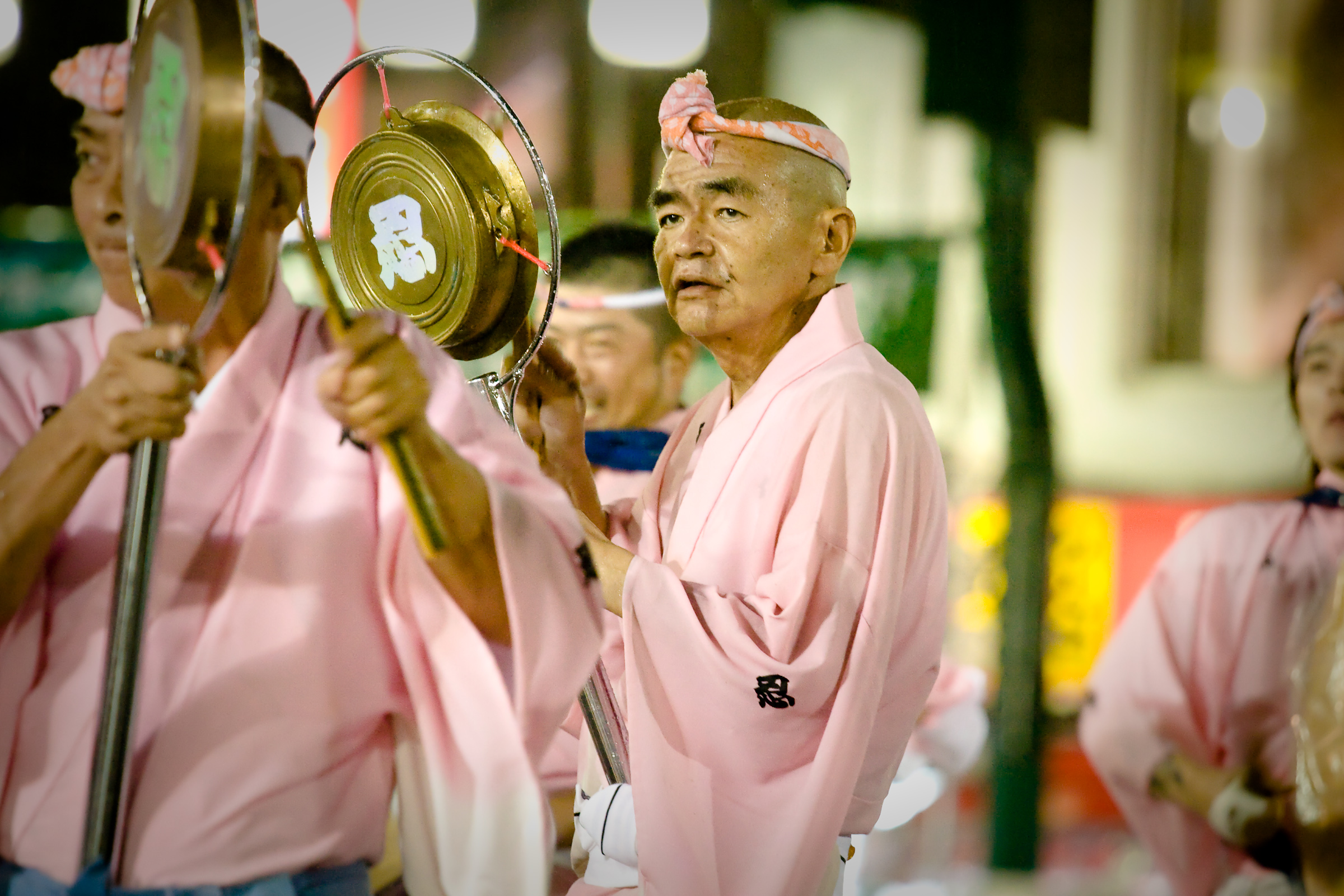 Tokyo Koenji Awaodori Dance Festival